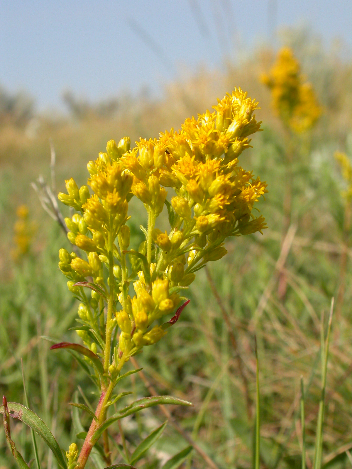 Solidago missouriensis in Bozeman, MT, USA